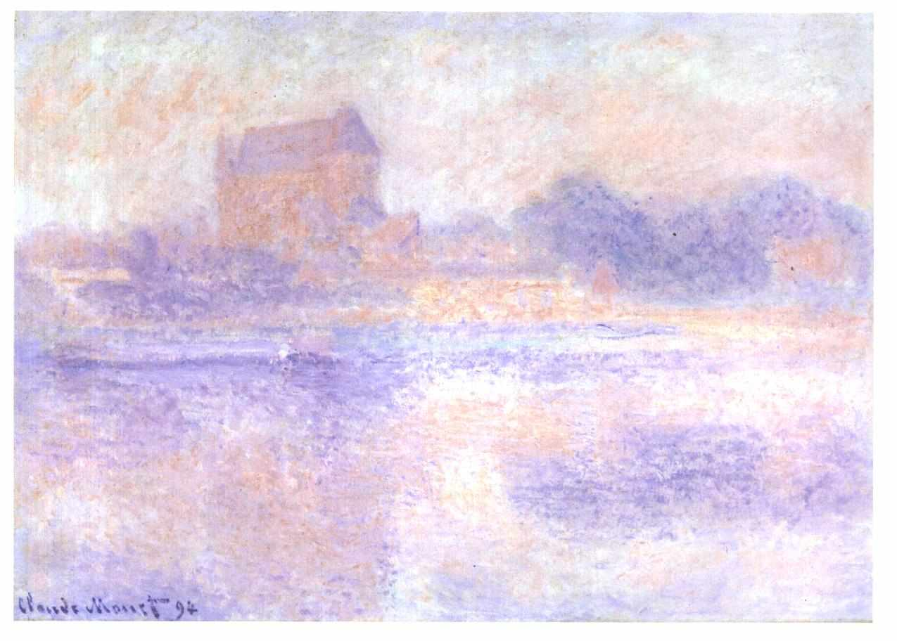 Church of Vernon in the fog